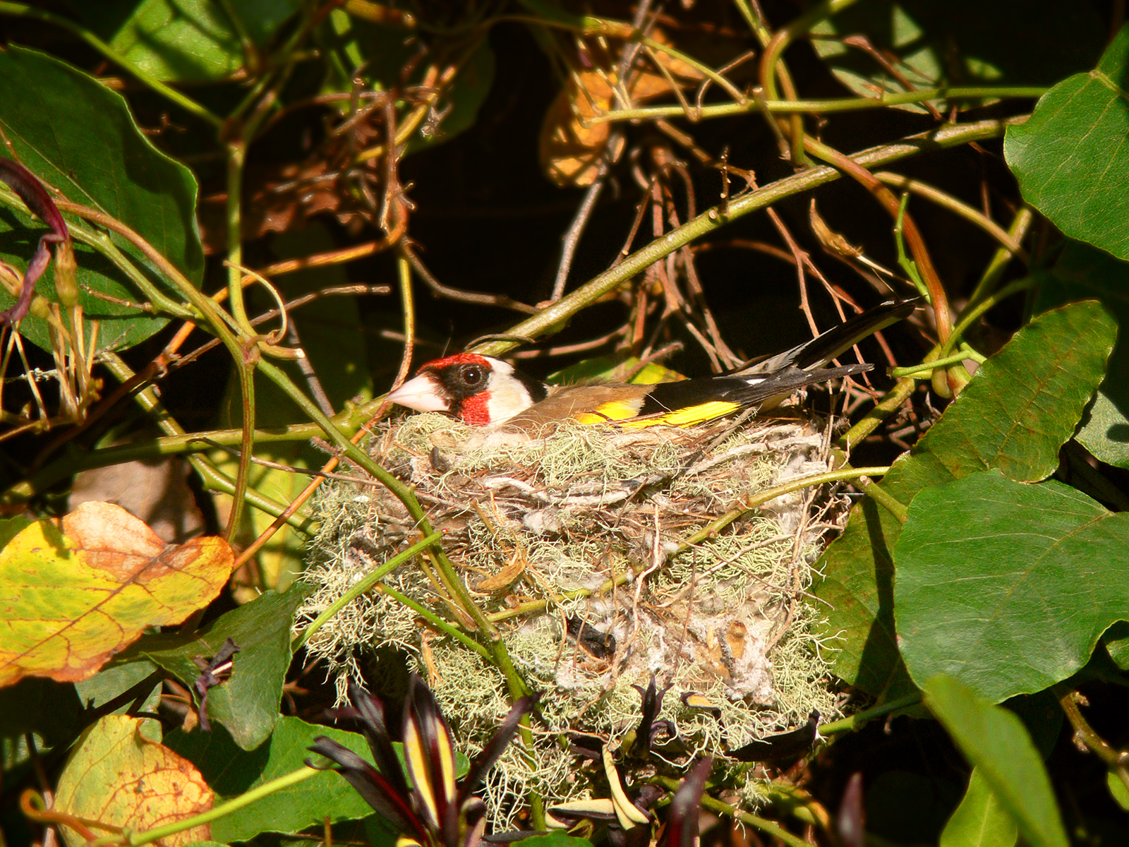 A Goldfinch, Carduelis carduelis nesting, about nine feet above the ground. Taken in South-eastern Australia.